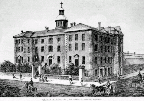 The Montreal General Hospital Canadian Illustrated News Date: 14 November 1874